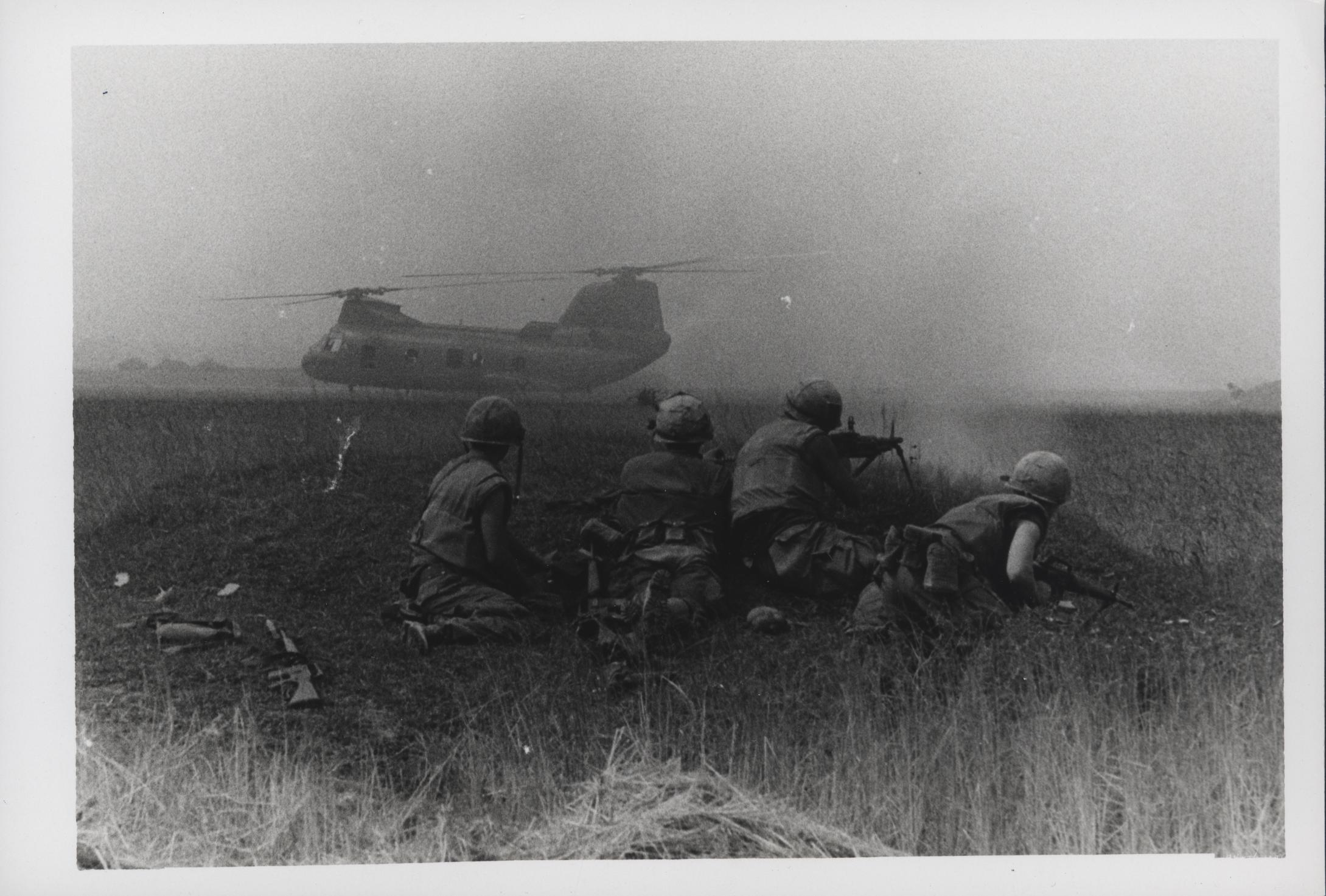 "Landing Zone: 3d Marine Regiment Leathernecks provide machinegun cover fire for a CH-46 Sea Knight helicopter resupply during Operation Napoleon-Saline, the recent fighting near Dong Ha where allied forces accounted for more than 1,00 NVA dead (official USMC photo by Lance Corporal R. E. Stetson)." From the Jonathan F. Abel Collection (COLL/3611), Marine Corps Archives & Special Collections OFFICIAL USMC PHOTOGRAPH